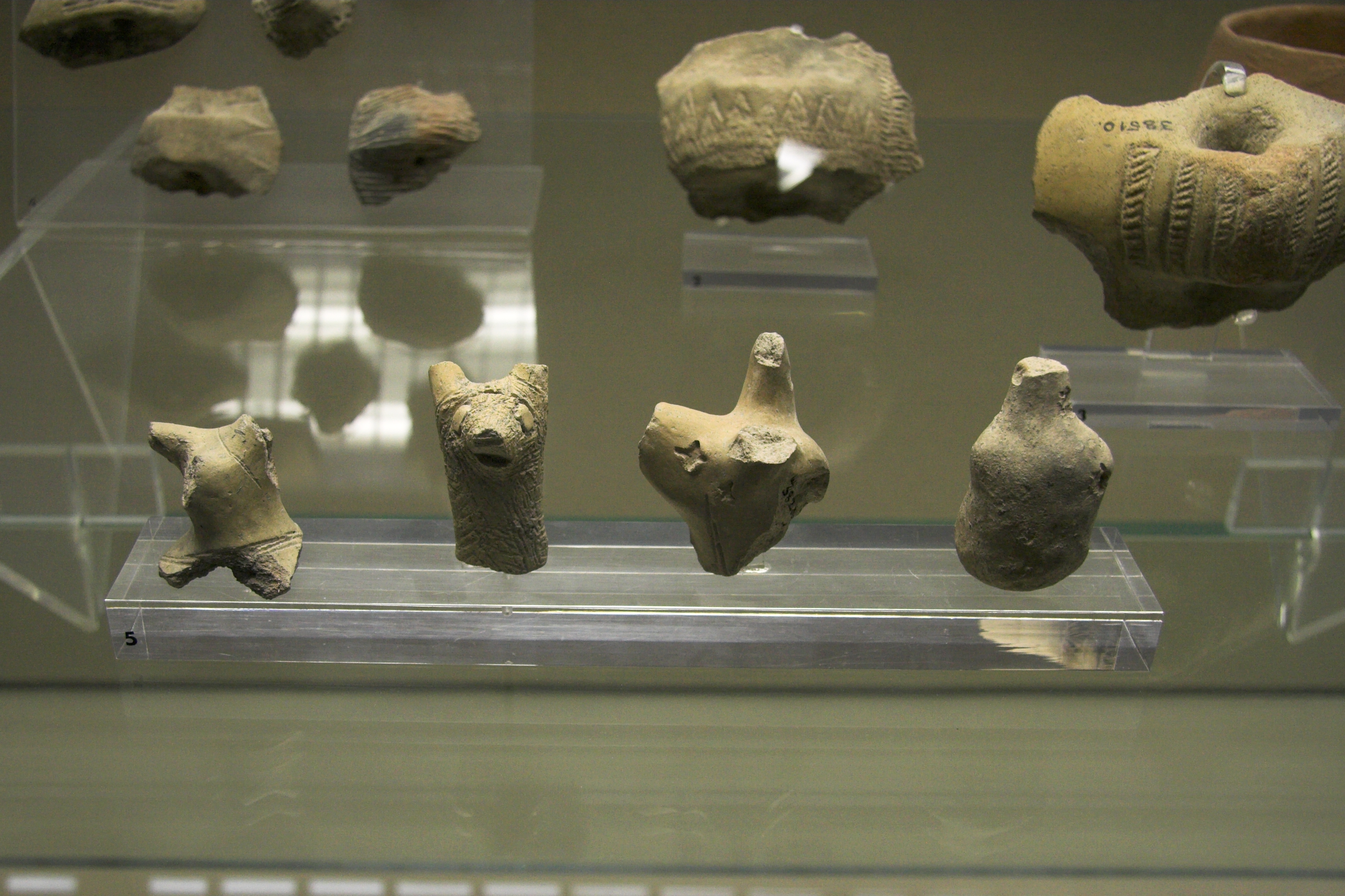 Fragments of small terracota idols. Sicilian Middle Neolithic, Sentinello,culture, ca 5000 BC. Archaeological Museum of Syracuse.